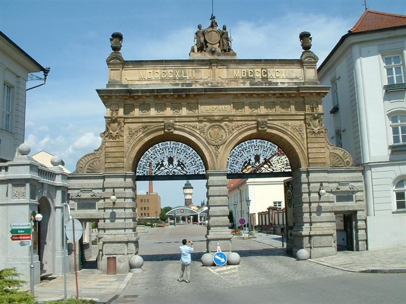 Pilsner Urquell - main gate